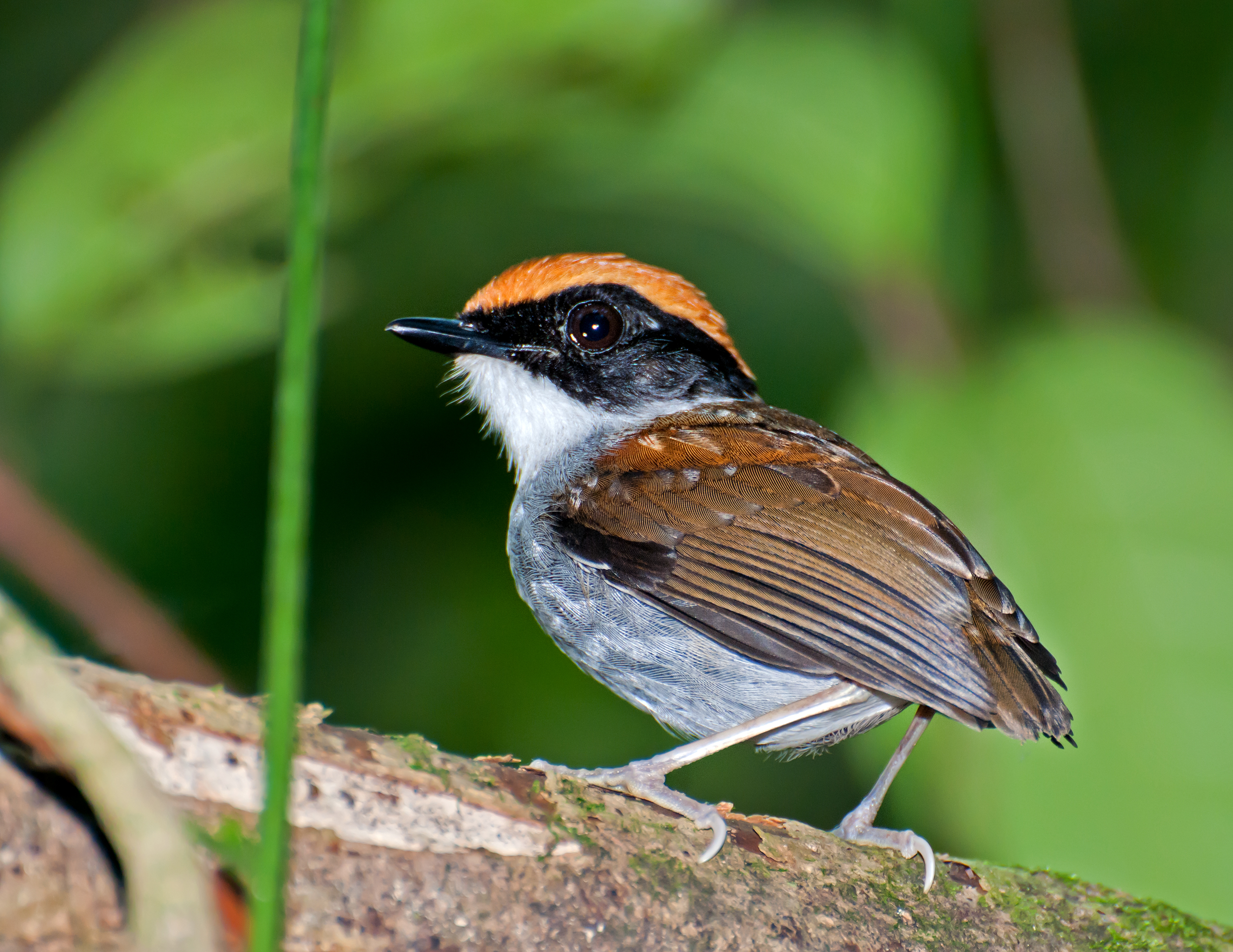 A male Black-cheeked Gnateater in Vale do Ribeira, Juquiá, São Paulo, Brazil.